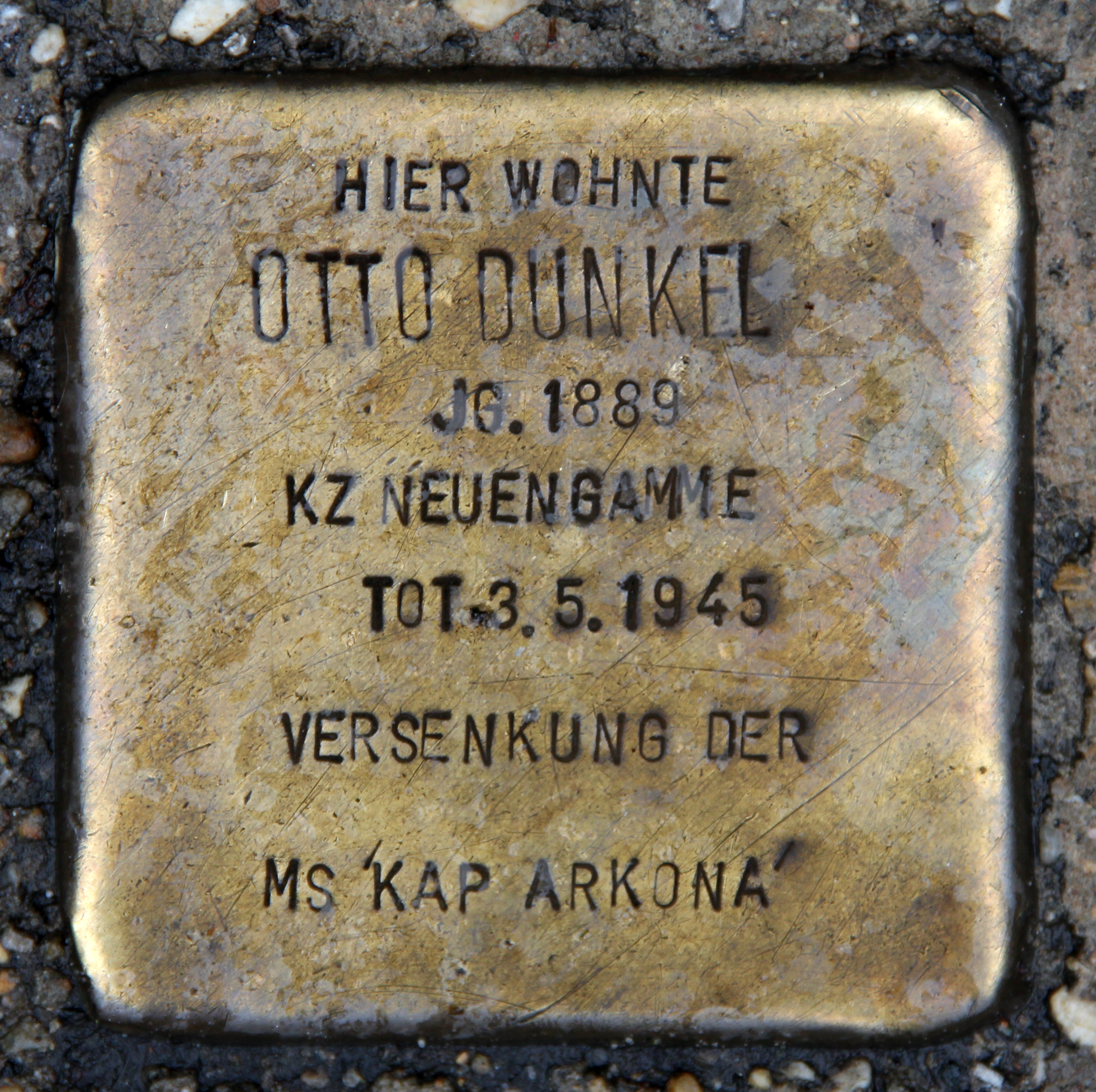 "Stolperstein" (stumbling block), Otto Dunkel, Spreestraße 1, Berlin-Niederschöneweide, Germany